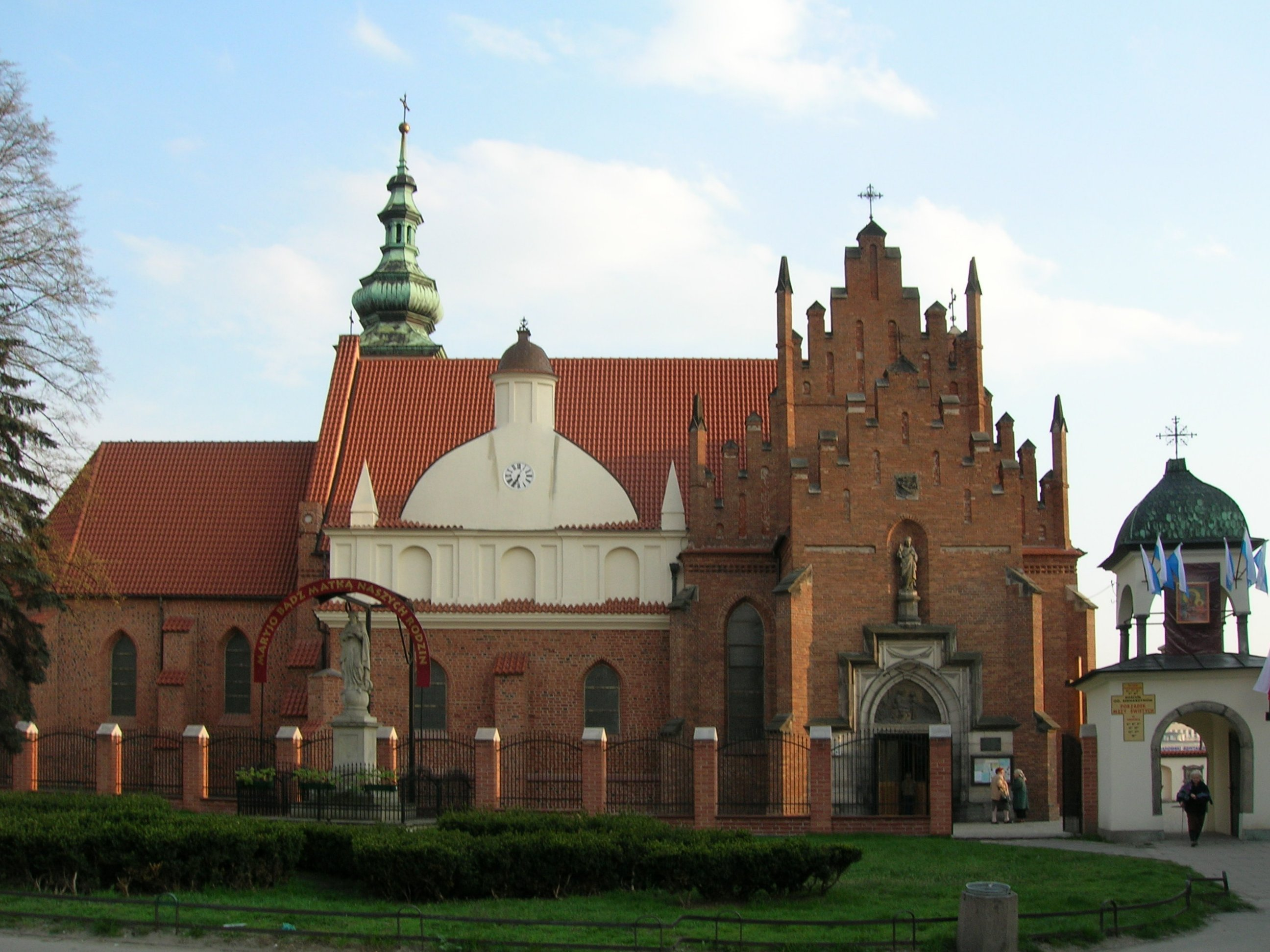 Radom - Bernardine Church & Monastery.